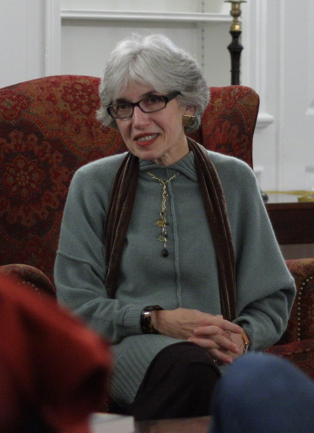 Author Dava Sobel answering questions from the attendees of a Yale "Master's Tea" in Davenport College